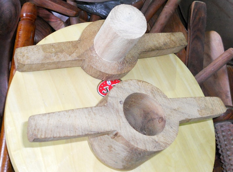 Sevanazhi, dye for making ediyappam